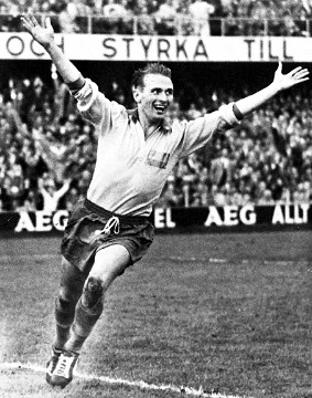 Kurt Hamrin in the 1958 FIFA World Cup after scoring against West Germany in the semi finals at Nya Ullevi.